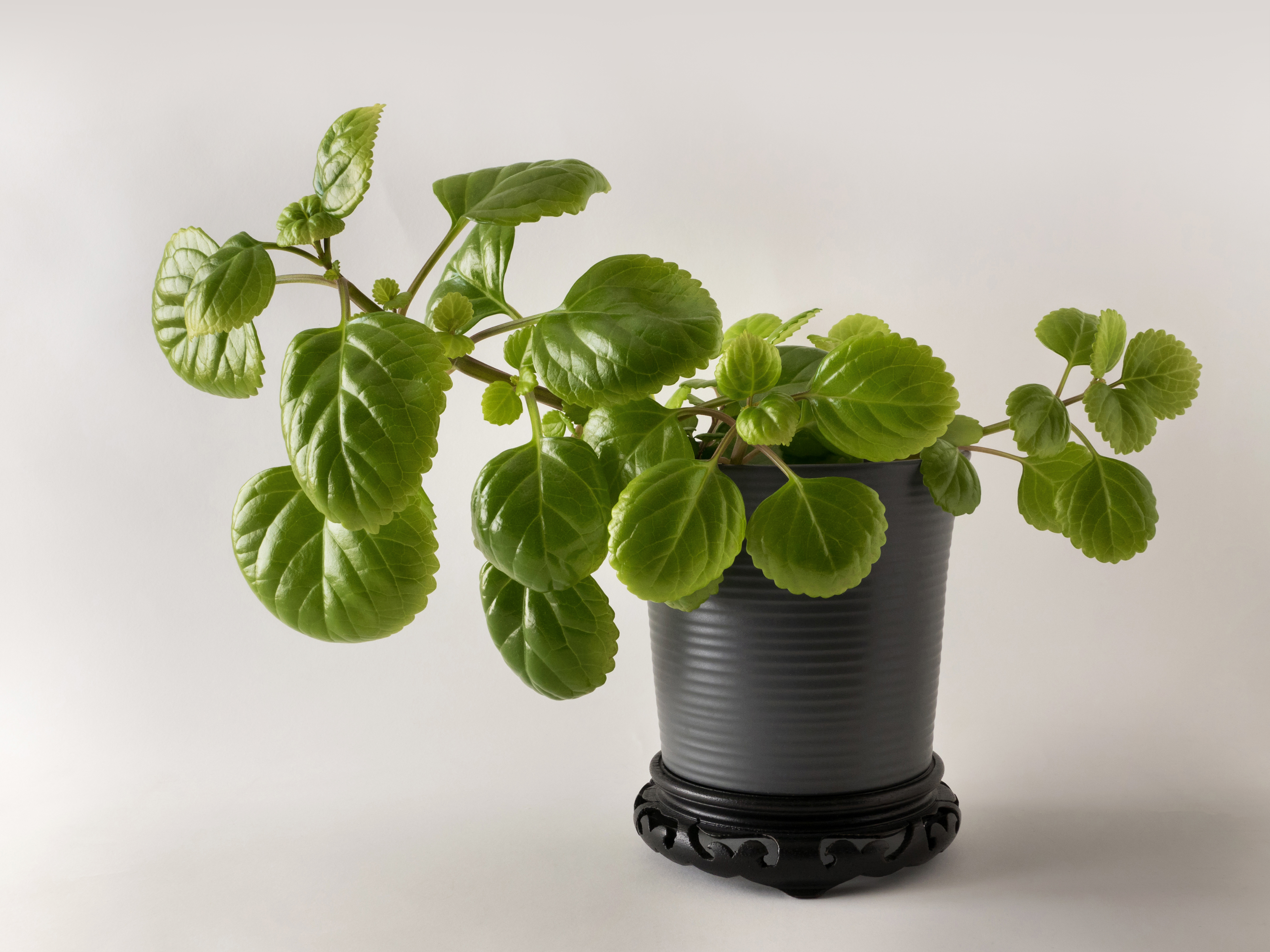 Swedish ivy, (Plectranthus verticillatus) in a grey ceramic pot on a Chinese wooden stand. The plant has been grown from a cutting in the window of an office in Lysekil, Sweden. Photo taken in natural daylight from a window. Focus stacking of 8 pictures (using Photoshop)..